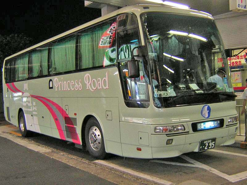 A highway Shinki Bus car "Princess Road".